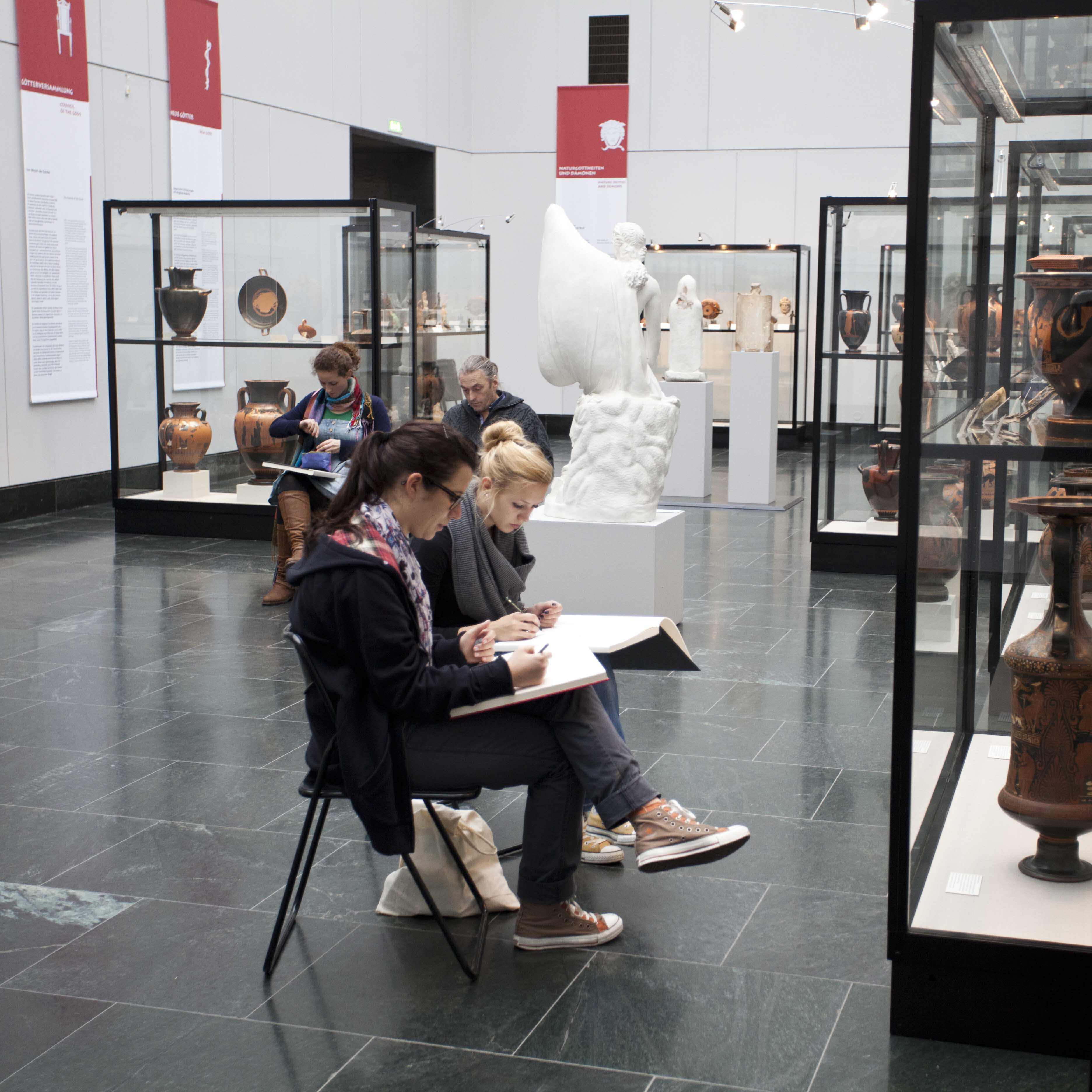 drawing lessons in the class to Designer in the crafts field